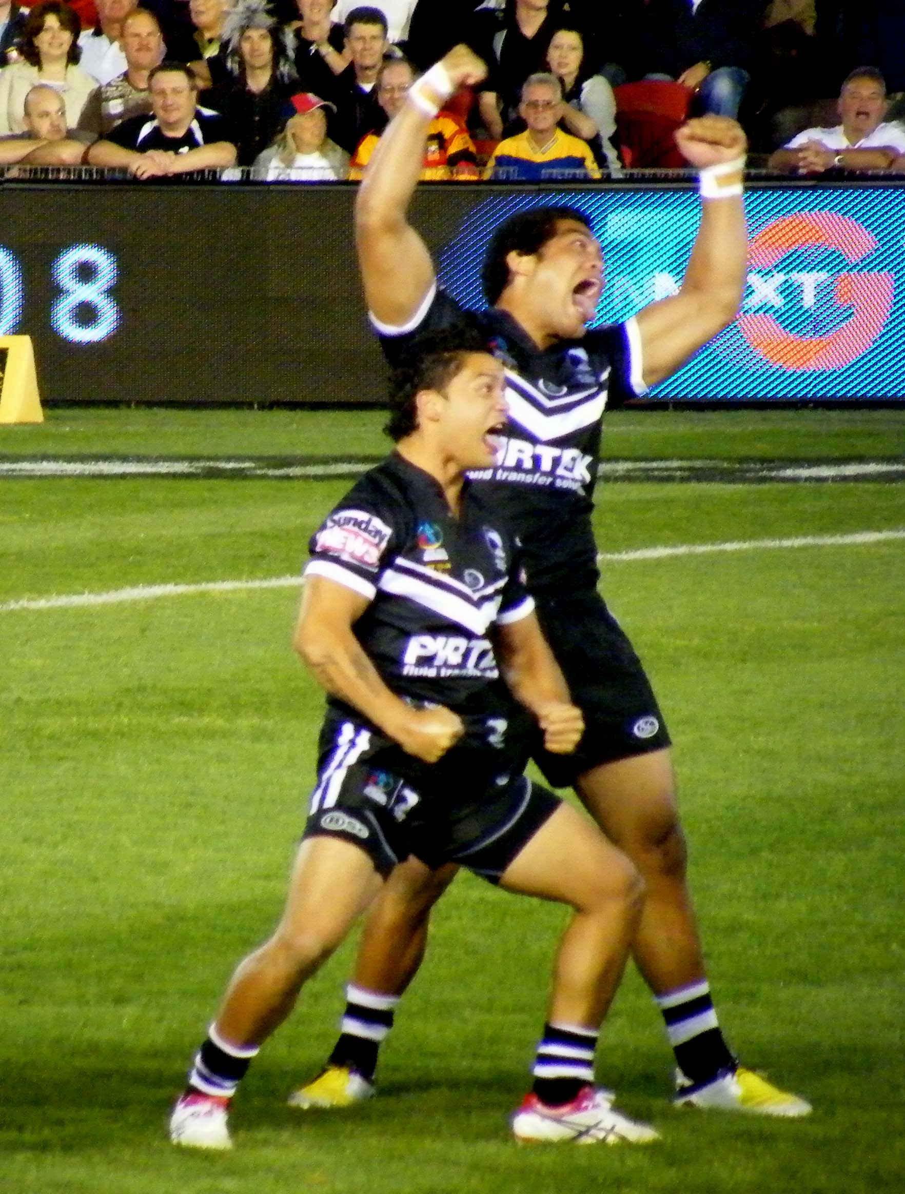 RLWC 2008 - England v New Zealand at Newcastle. Adam Blair and Issac Luke perform the Haka.